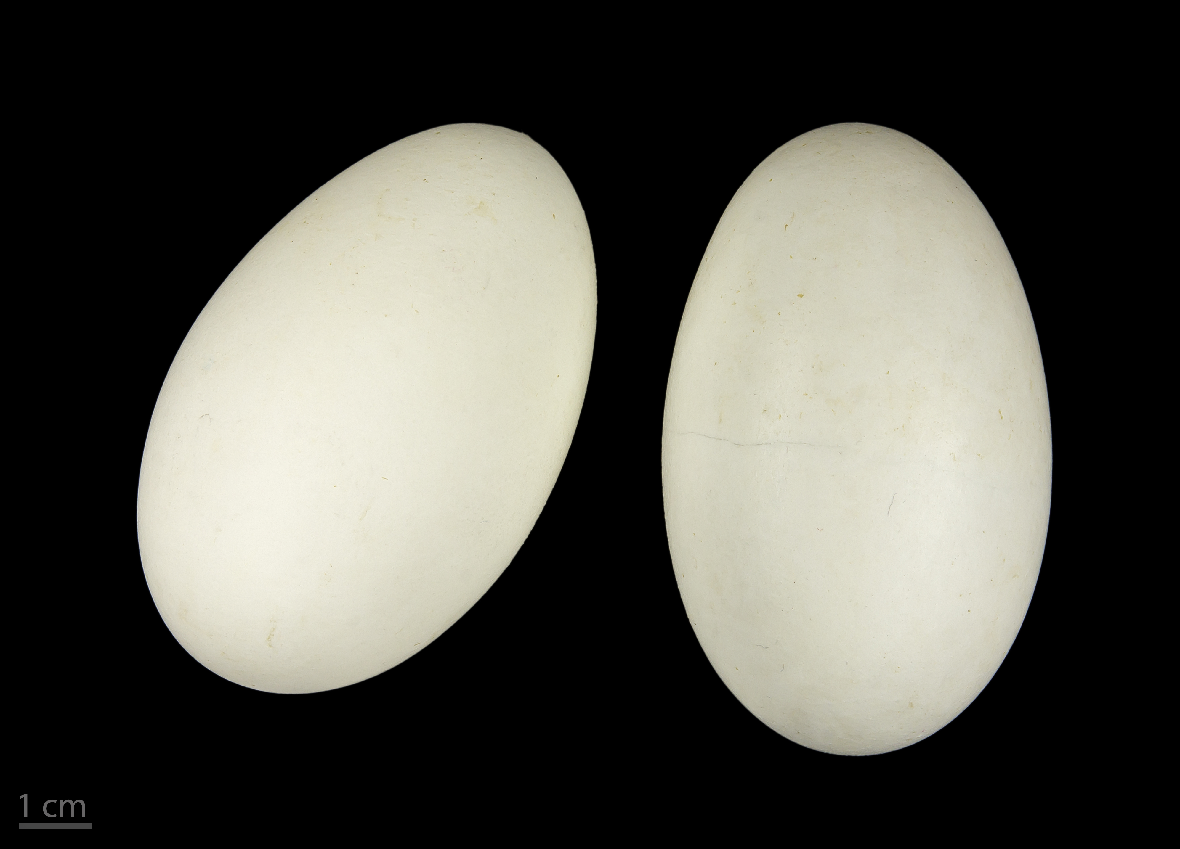 Egg of pink-footed goose Collection of Jacques Perrin de Brichambaut.